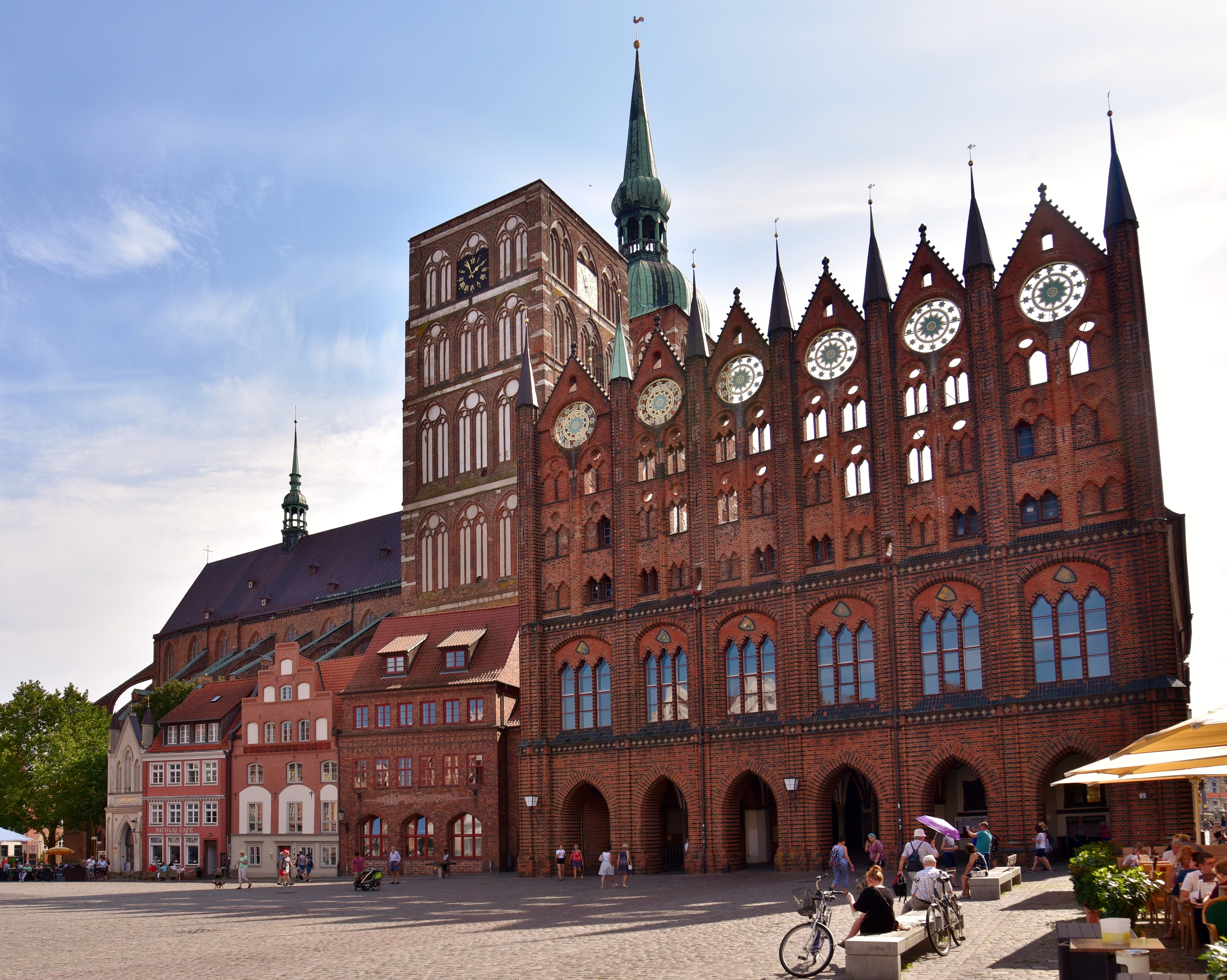 View of the Town Hall (Rathaus) in Stralsund, Germany